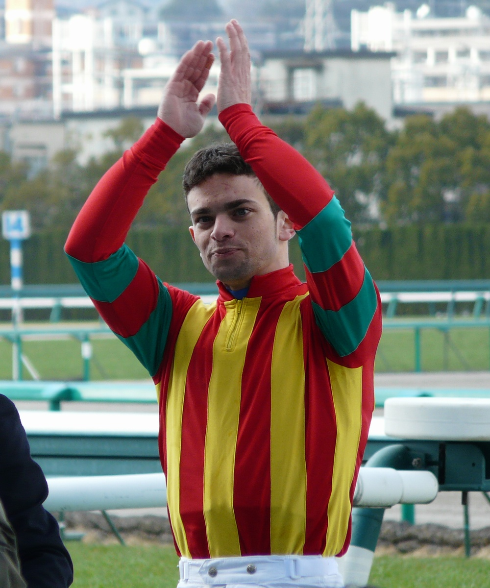 Umberto-Rispoli20110327